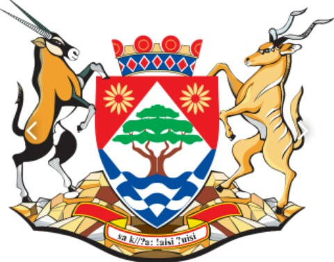 Ibheji lesifundazwe seNyakatho Kapa